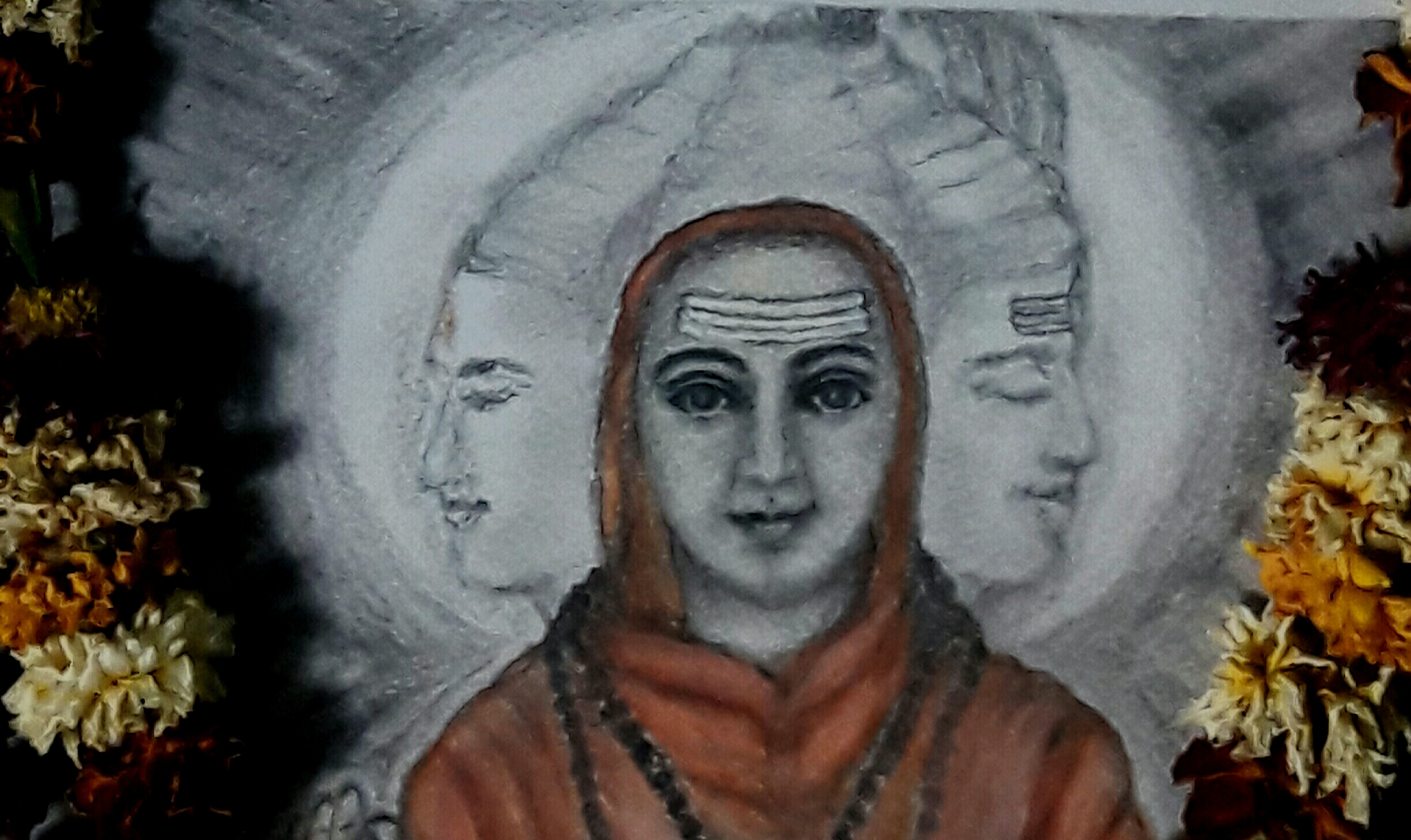 This is imaginative image of Sri Nrusinh Saraswati